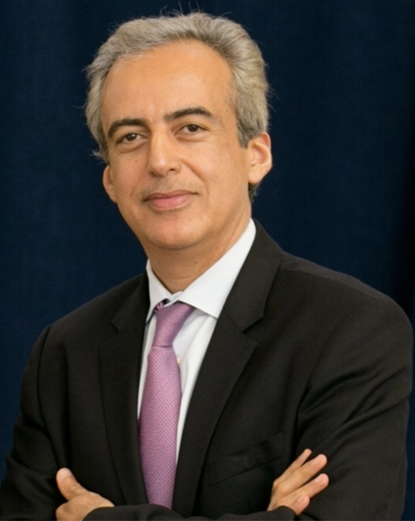 Dr.Dana is photo clicked in his lab in 2019 by RBS